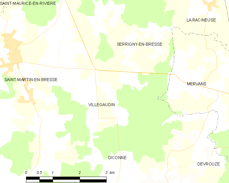 Map of French municipality